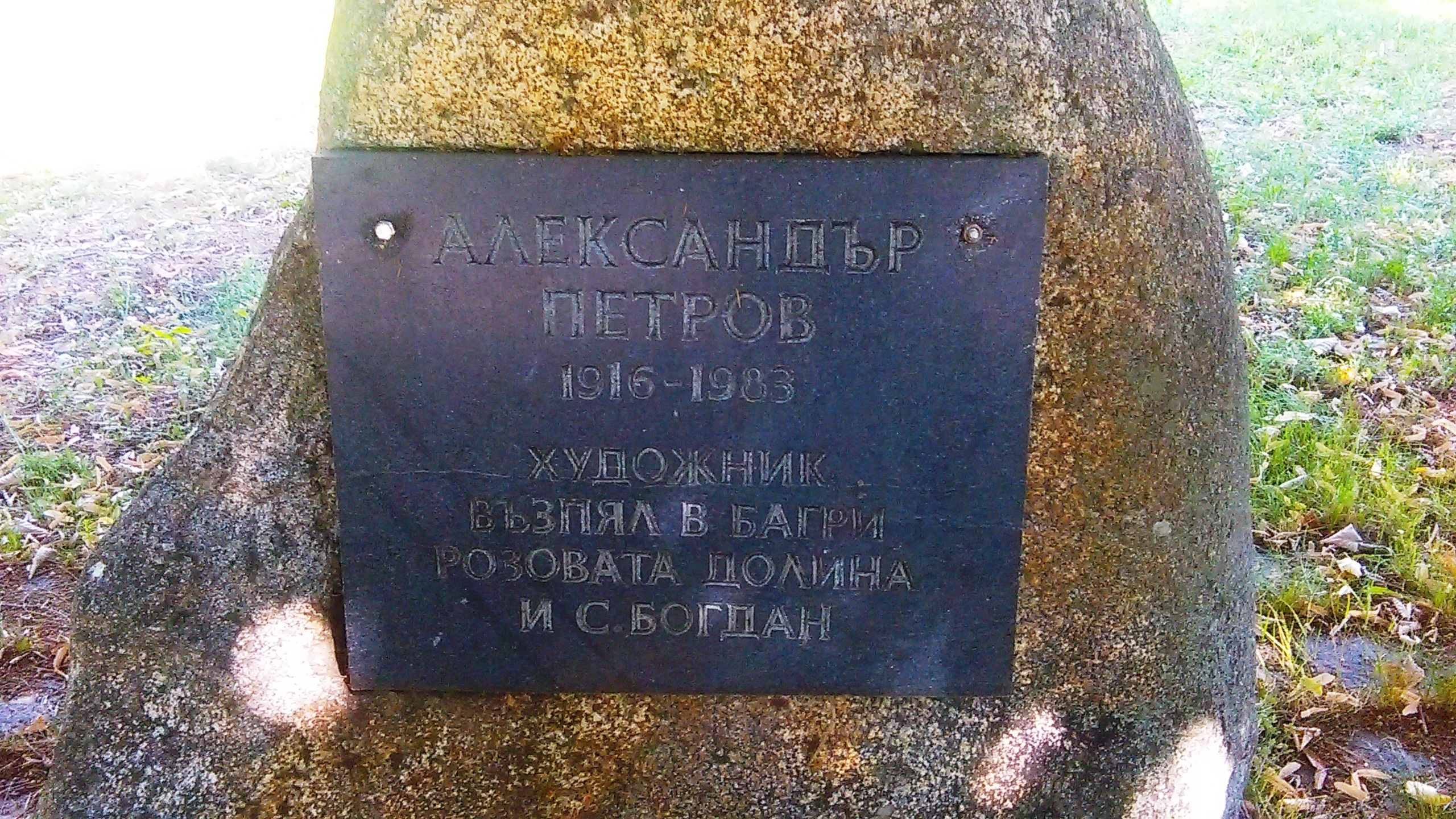 A memorial to bulgarian painter Aleksandar Petrov in Bogdan, Plovdiv province